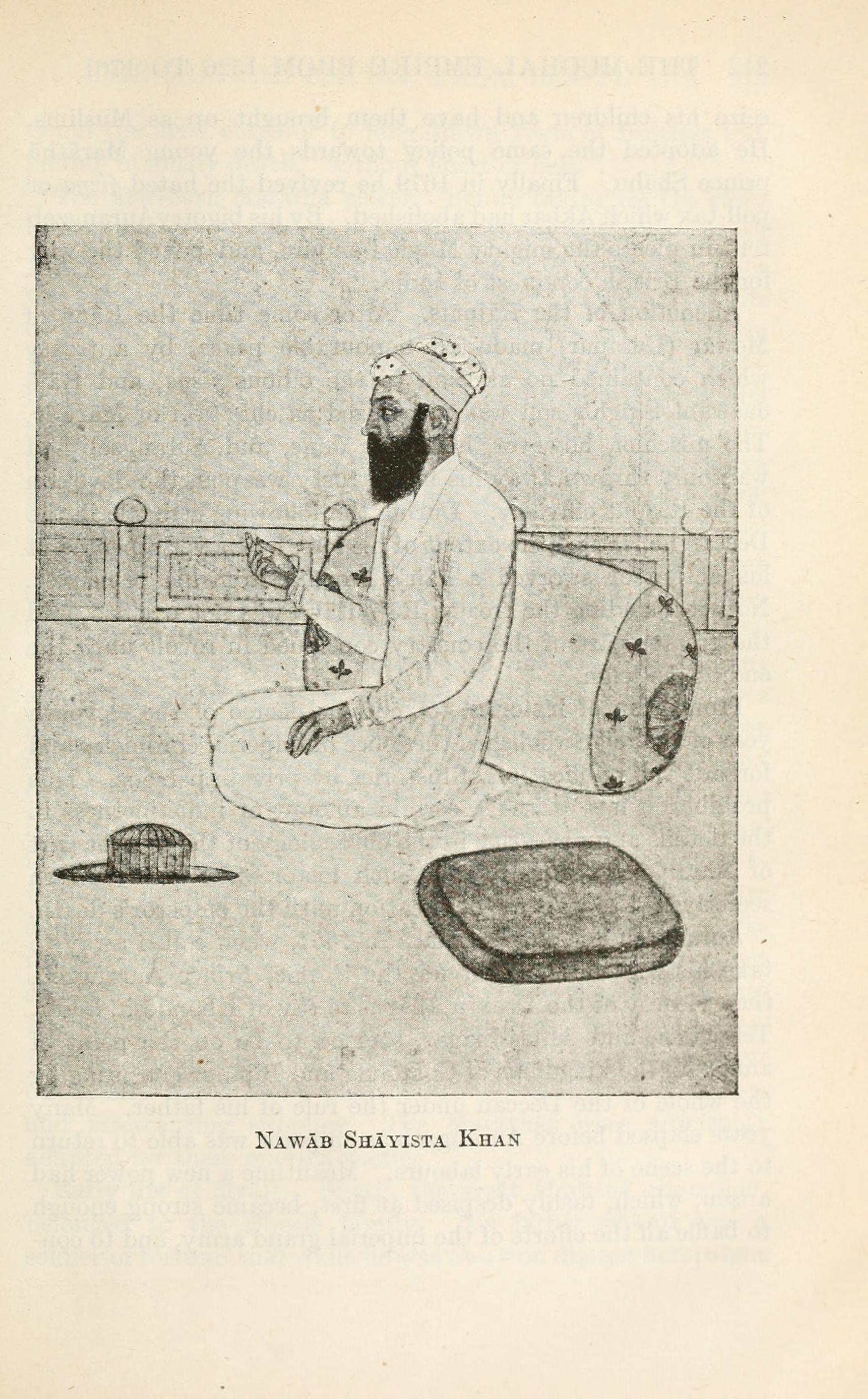 Author: Smith, Vincent Arthur, 1848-1920 Subject: India -- History Publisher: Oxford, Clarendon Press Possible copyright status: NOT_IN_COPYRIGHT Language: English Call number: AFA-0056 Digitizing sponsor: MSN Book contributor: Robarts - University of Toronto Collection: robarts; toronto Scanfactors: 10 Full catalog record: MARCXML [Open Library icon]This book has an editable web page on Open Library.